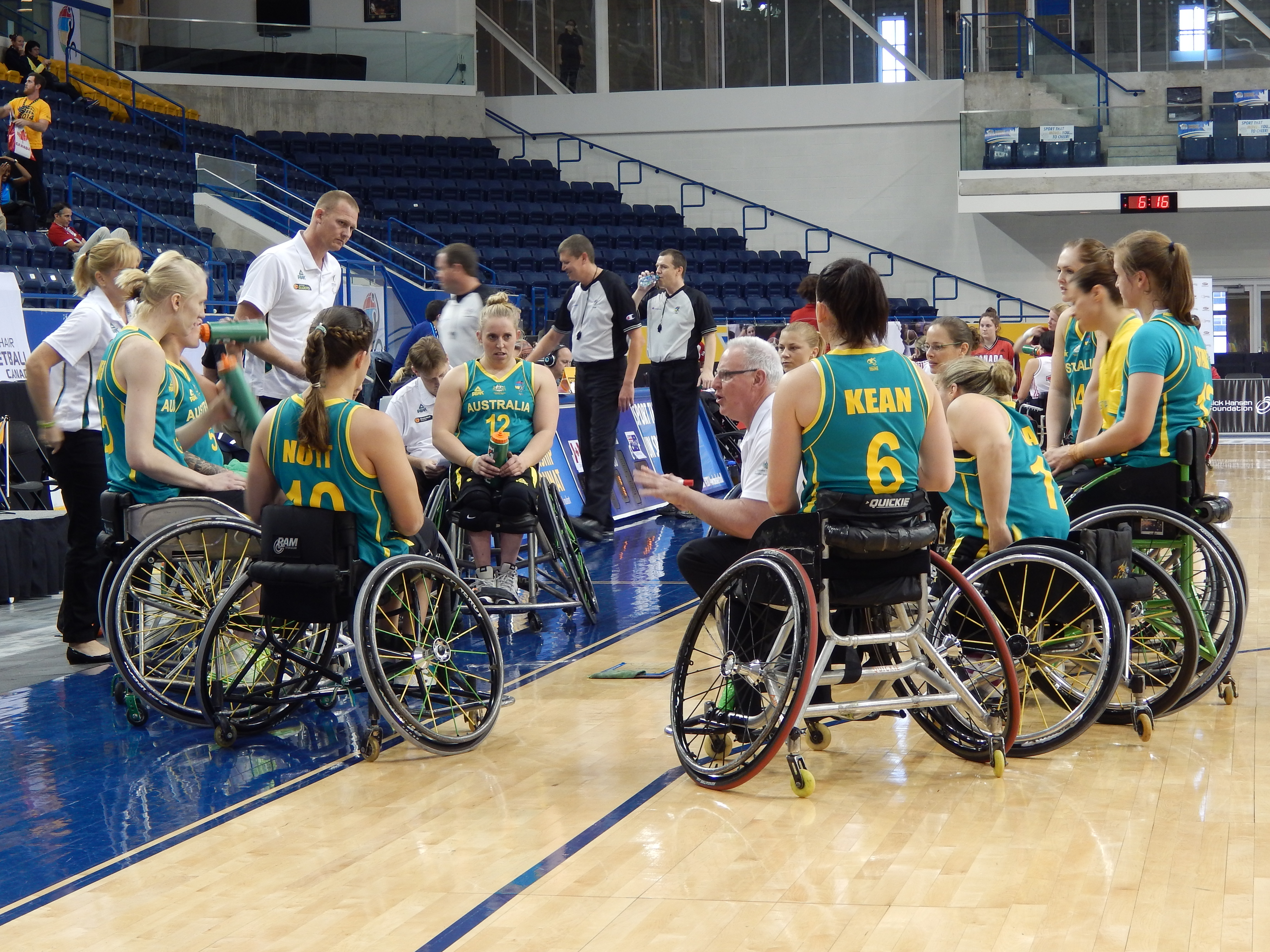 The Gliders are addressed by their coach, Tom Kyle (centre). The Gliders are, left to right: Amber Merritt, Cobi Crispin (obscured), Clare Nott, Shelley Chaplin, Shelley Cronau, Bridie Kean, Stephanie van Leeuwen, Kylie Gauci, Kathleen O'Kelly-Kennedy, Leanne Del Toso, Sarah Stewart. Team officials (behind the players, in white shirts) are, left to right, Jane Kyle, Troy Sachs and David Gould